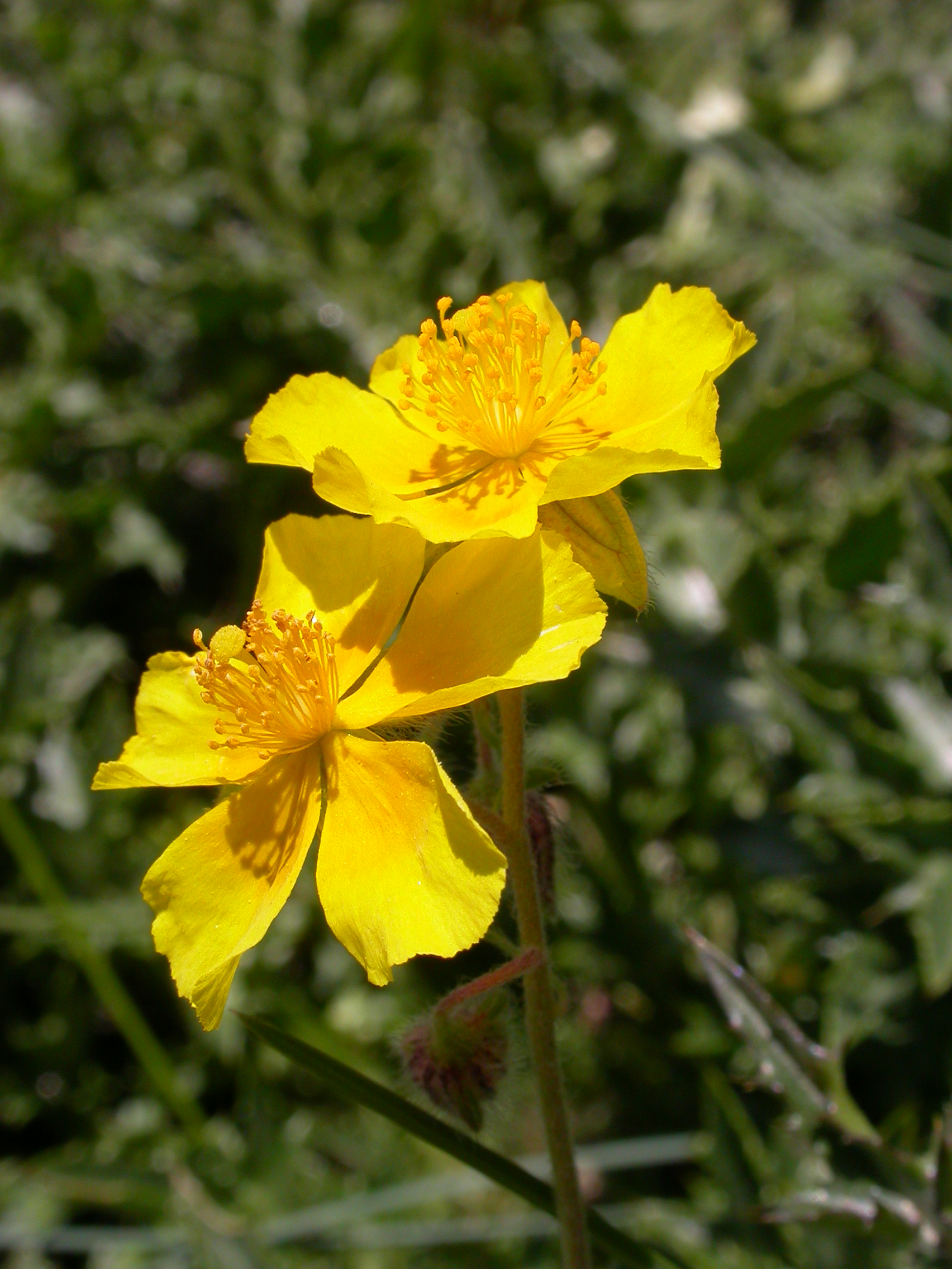 Helianthemum nummularium Zermatt, Riffelberg (Kanton Wallis, Switzerland), 2500 m Author: Barbara Studer – own photograph Date: 2.08.06